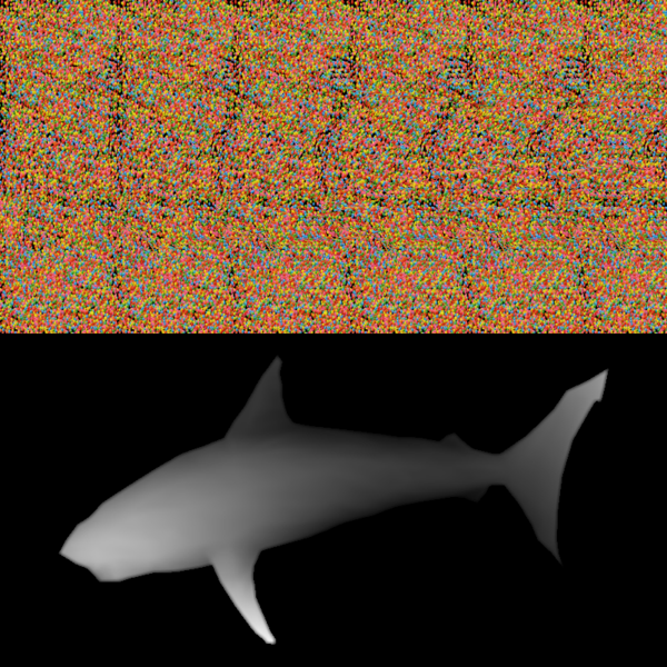 A random dot autostereogram and the depth map of a shark used in its creation. Source: Fred Hsu (User:Fredhsu), March 2005. Fredhsu, the copyright holder of this work, hereby publishes it under the following license: Attribution: Fredhsu